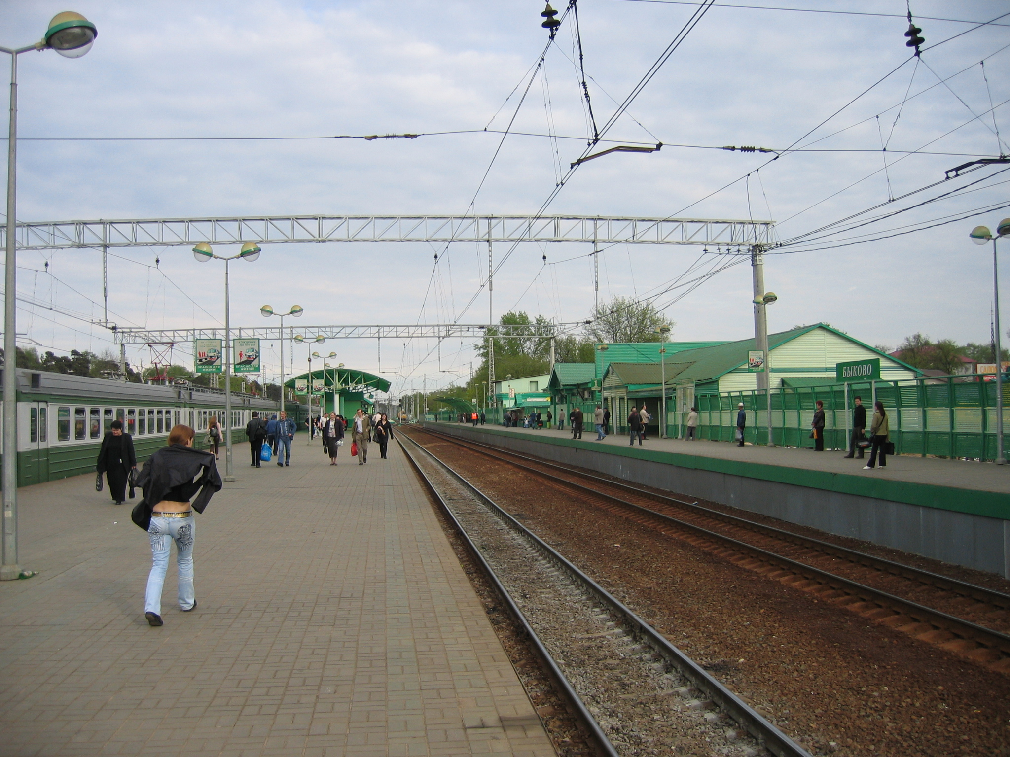 Bykovo train station, Moscow Oblast, Russia